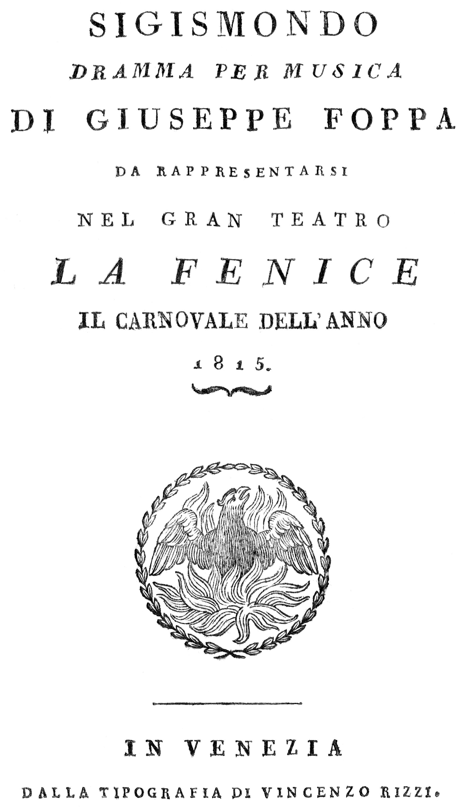 Gioachino Rossini - Sigismondo - titlepage of the libretto - Venice 1815